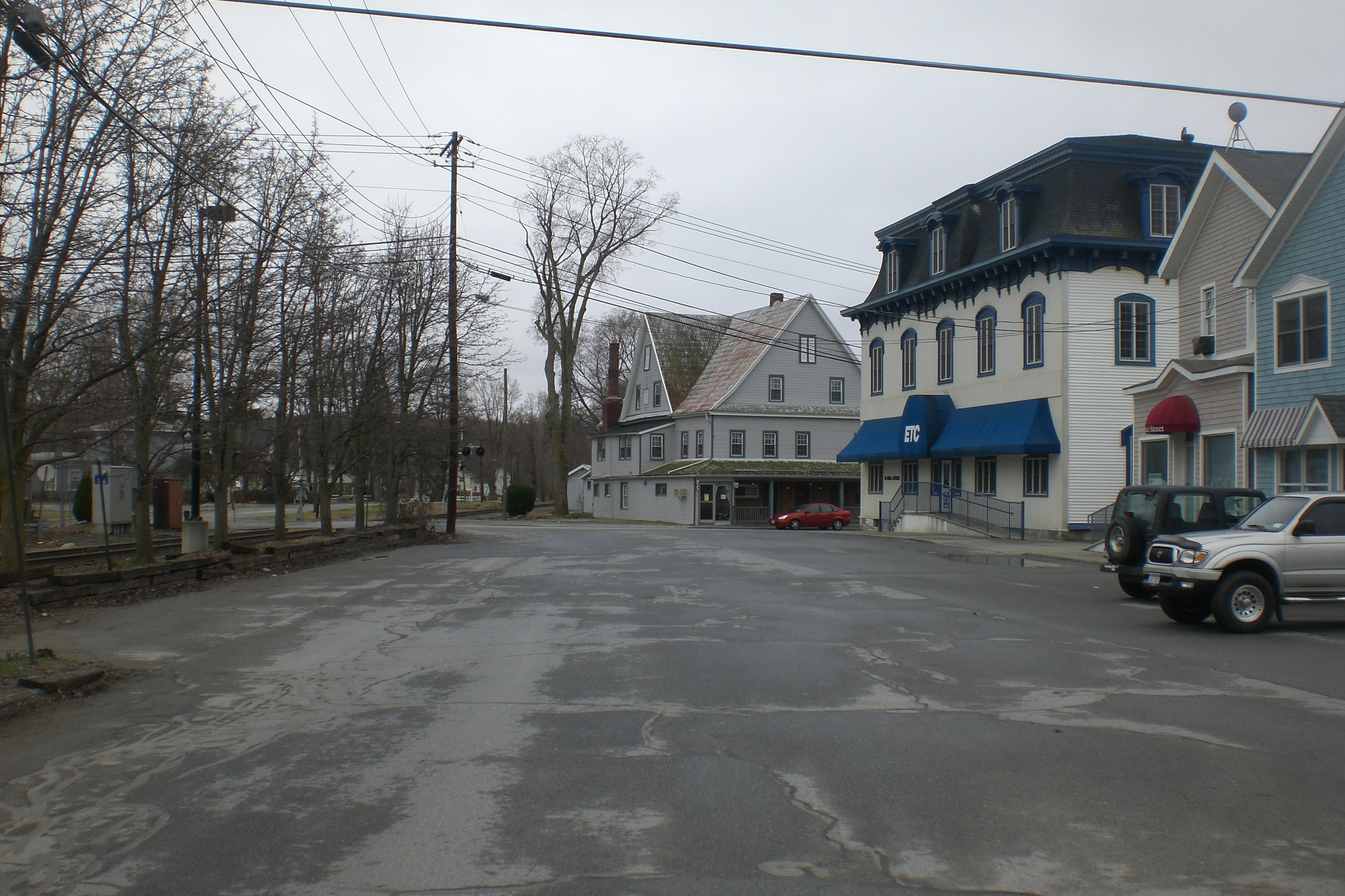 The downtown section of Dover Plains, New York, nearby is the Metro-North Railroad Harlem Line